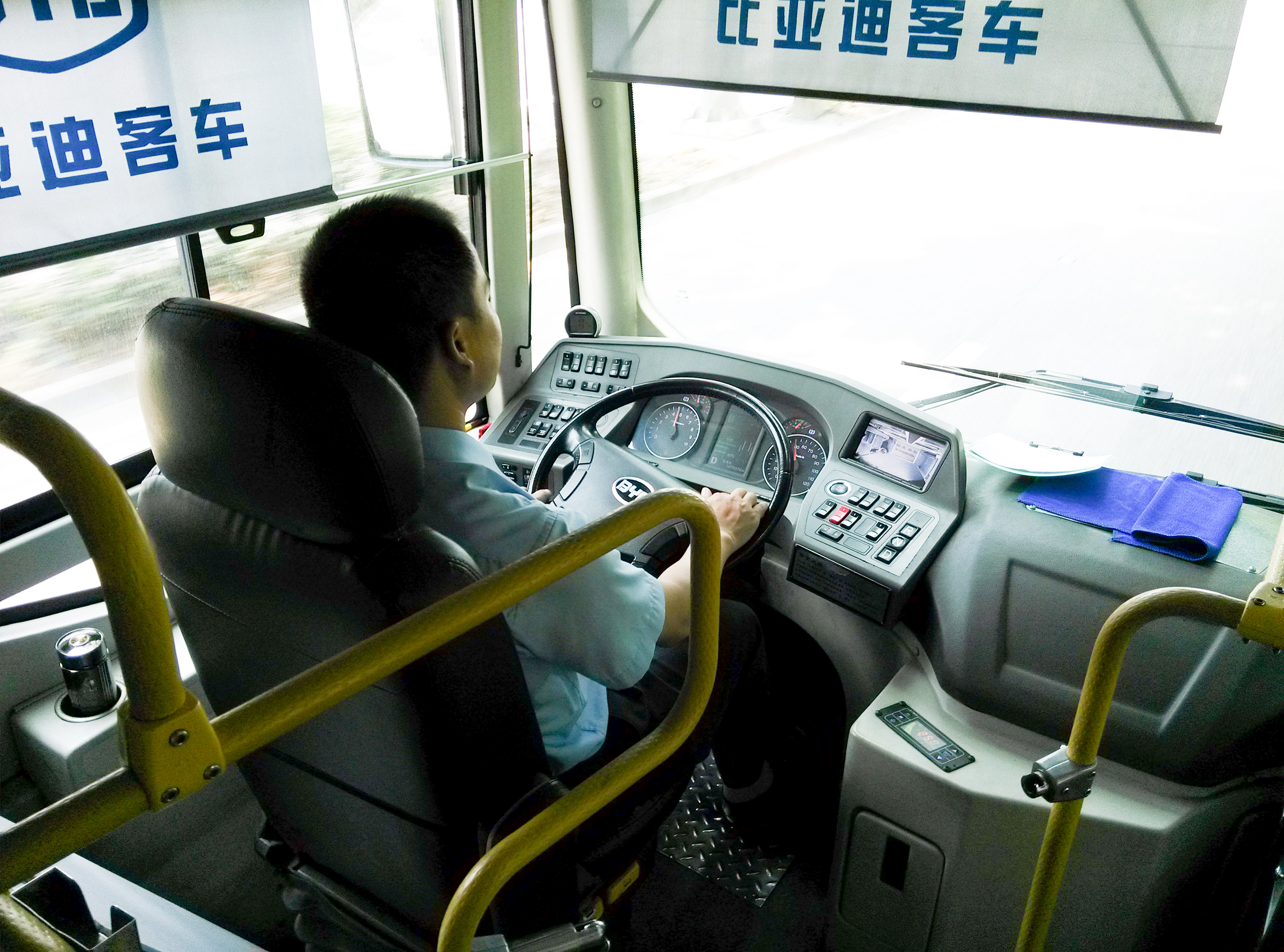 Driver driving the BYD K9 electric bus in Shenzhen, China